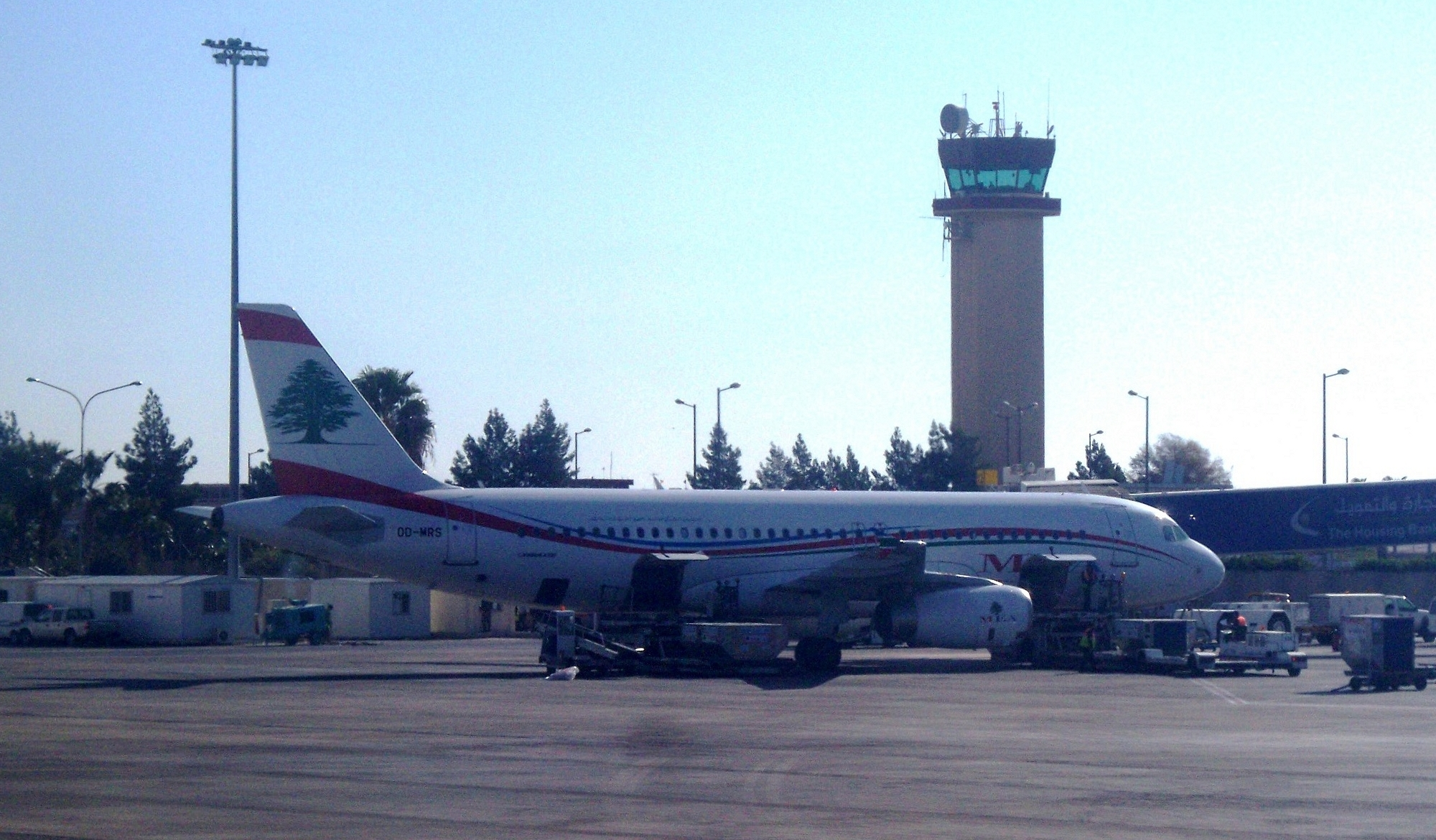 Lebanese airliner at Queen Alia International Airport, photographed in the evening.